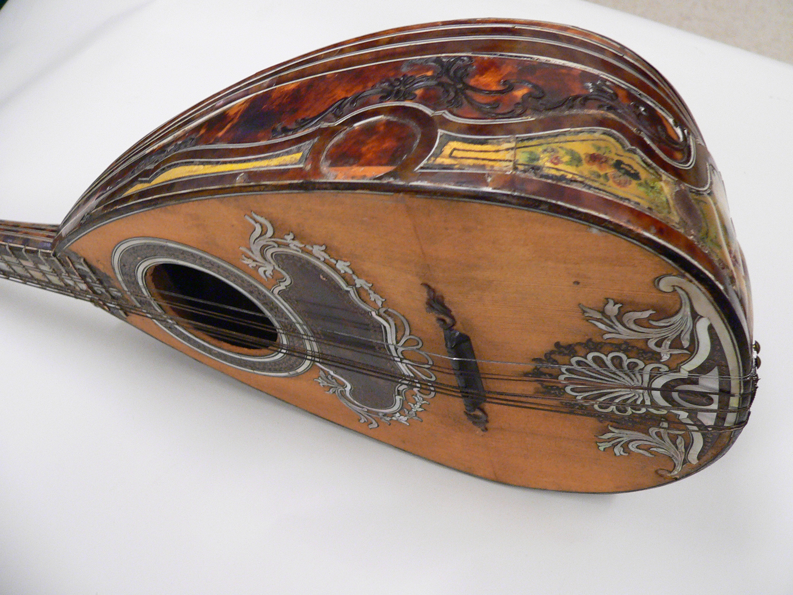 Italian; Mandolin; Chordophone-Lute-plucked-fretted